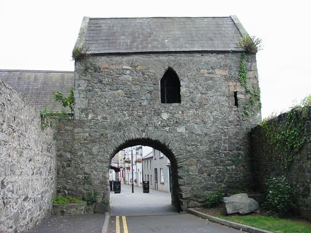 "Outside-in" view of the Tholsel (town gate) - Carlingford, Co. Louth Ireland. Note the 'murder-hole' on the right hand side of the picture.